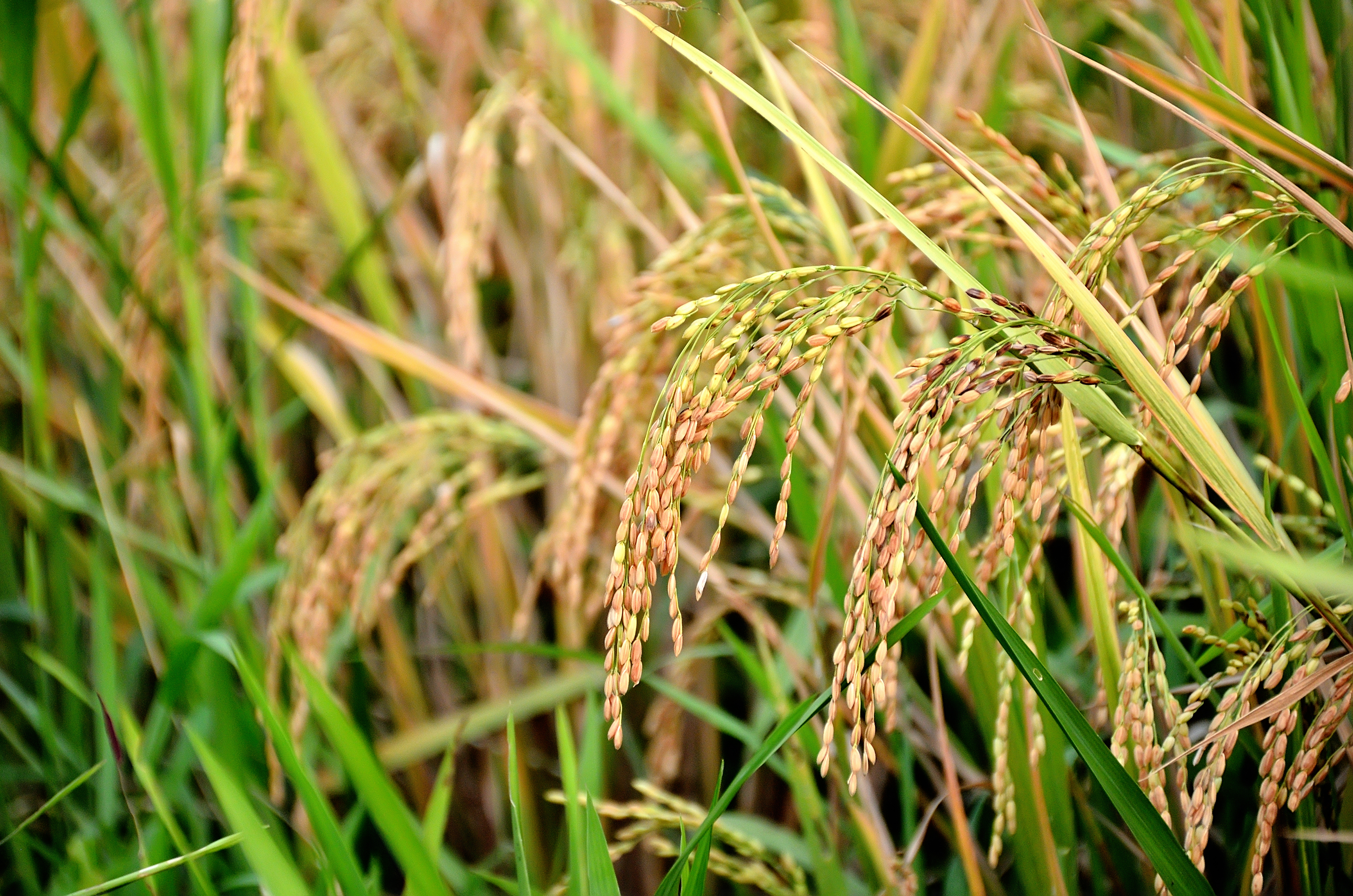 Mature Rice (India) by Augustus Binu